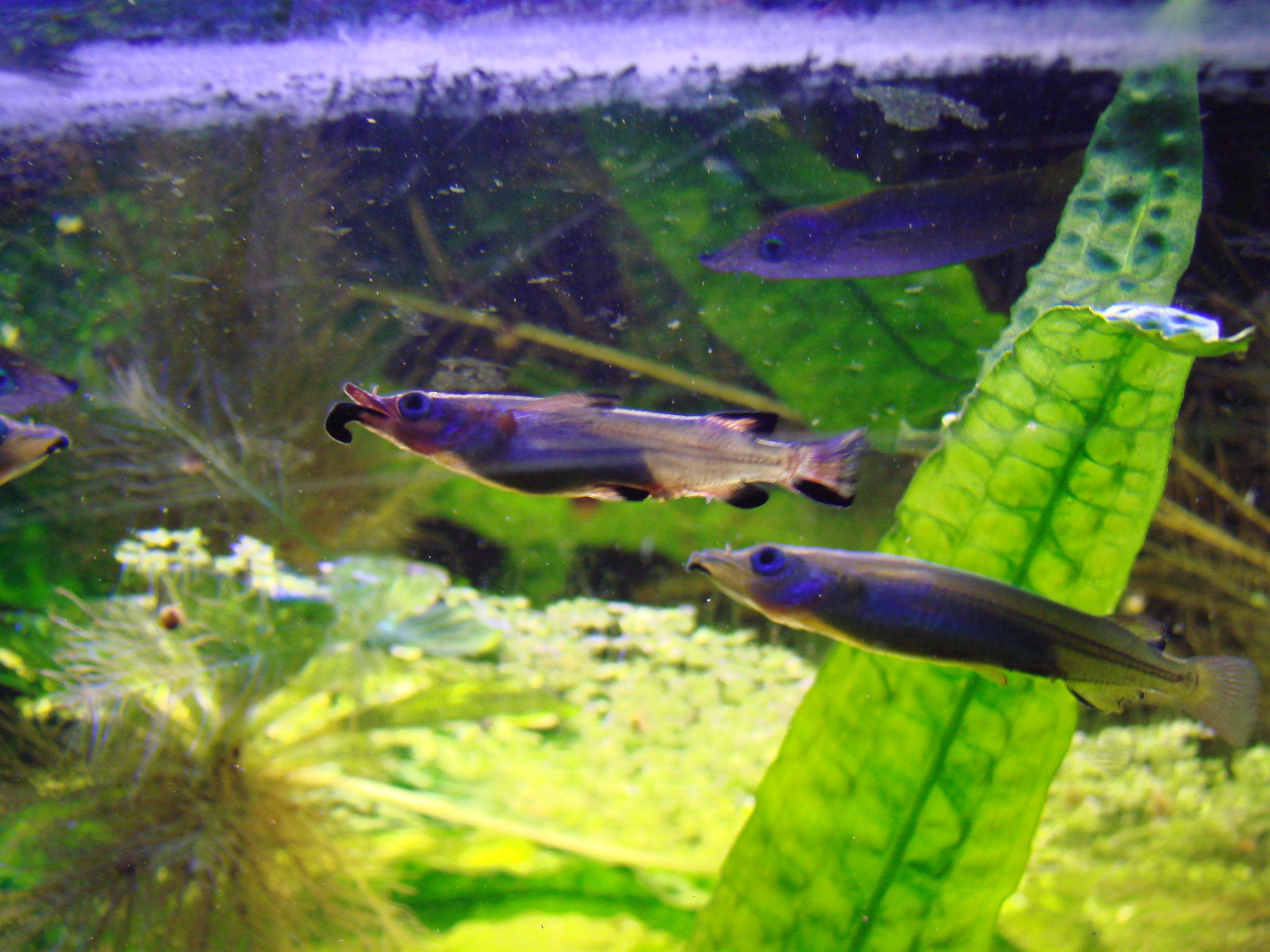 Picture taken in the zoo of Wrocław (Poland): Nomorhamphus liemi liemi (Vogt, 1978)